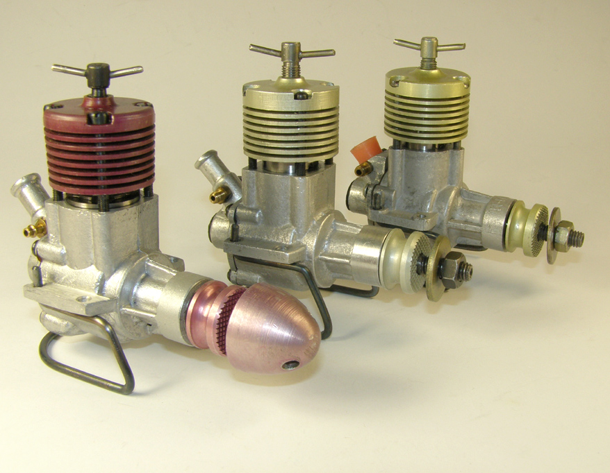 USSR model engine RYTM